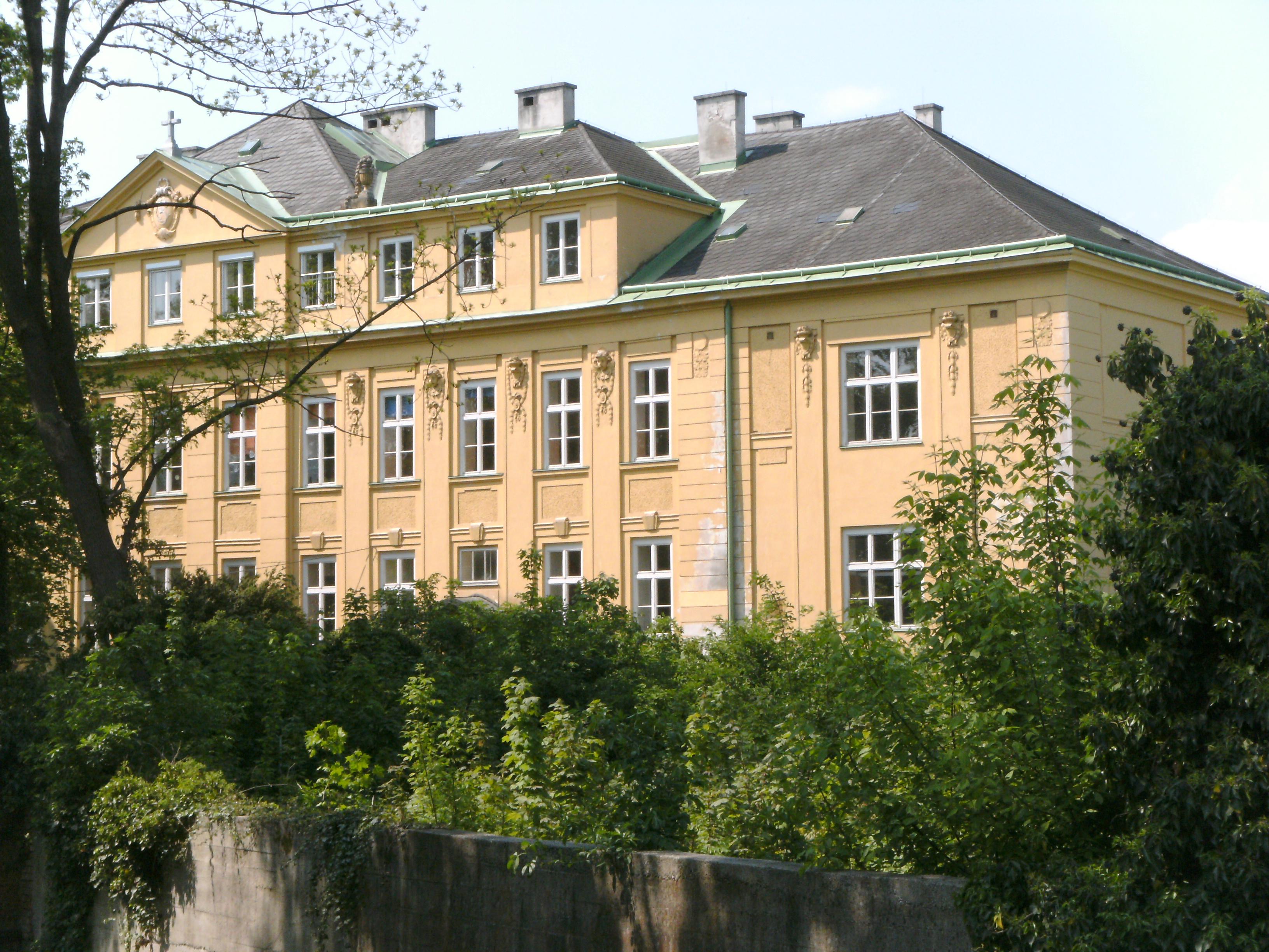 Santa Christiana school, Wiener Straße 65, Wiener Neustadt